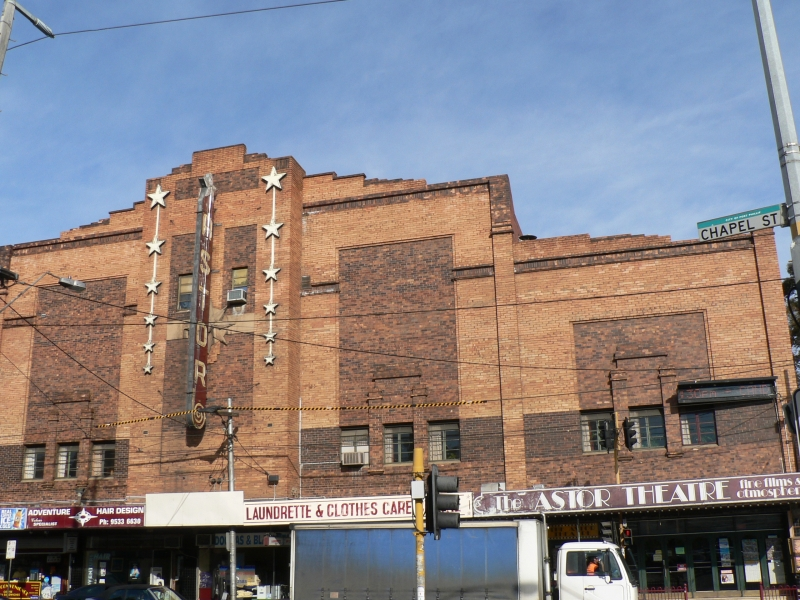 Astor Theatre. St Kilda